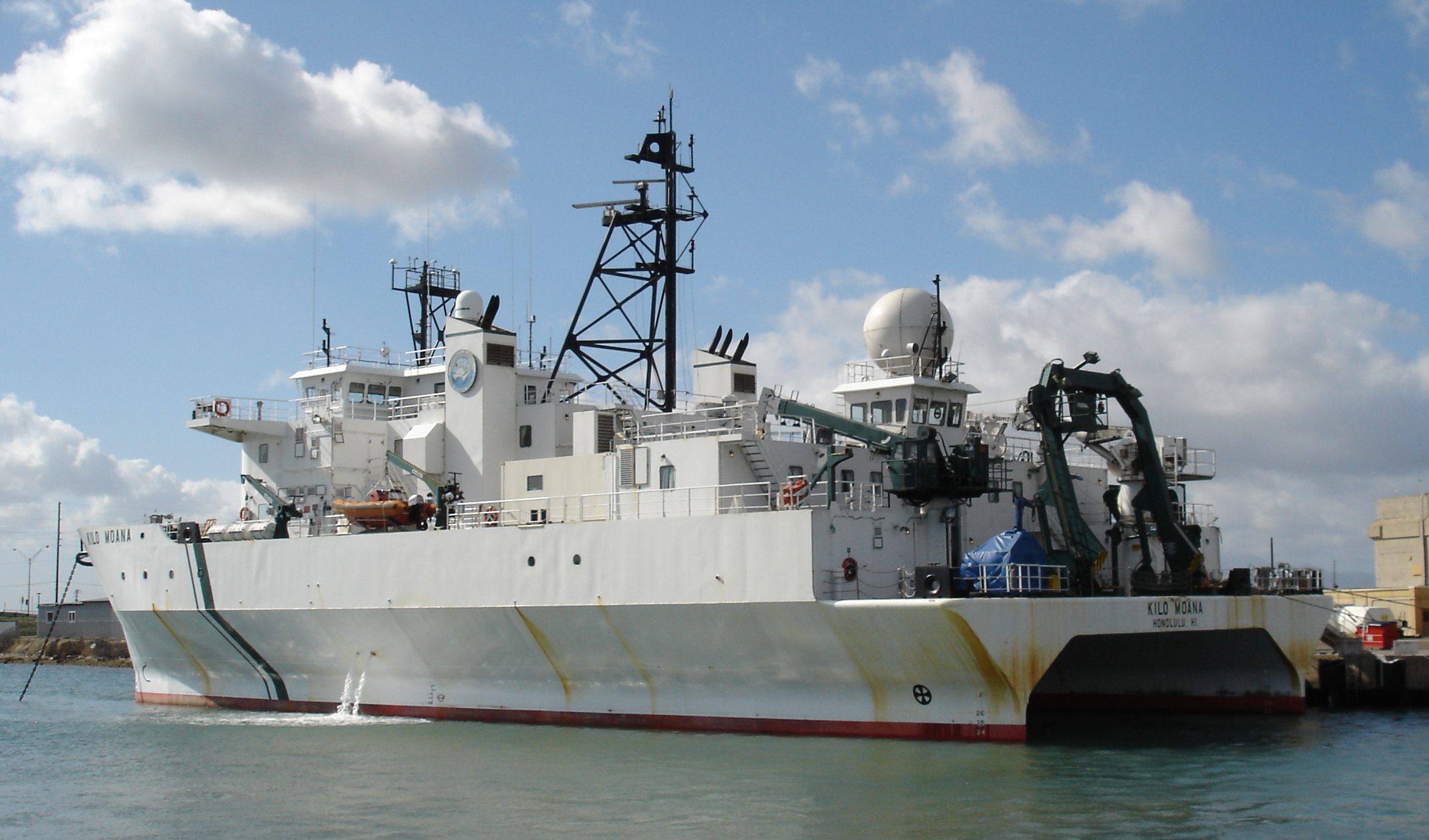 Hybrid research vessel Kilo Moana, operated by the University of Hawaii.